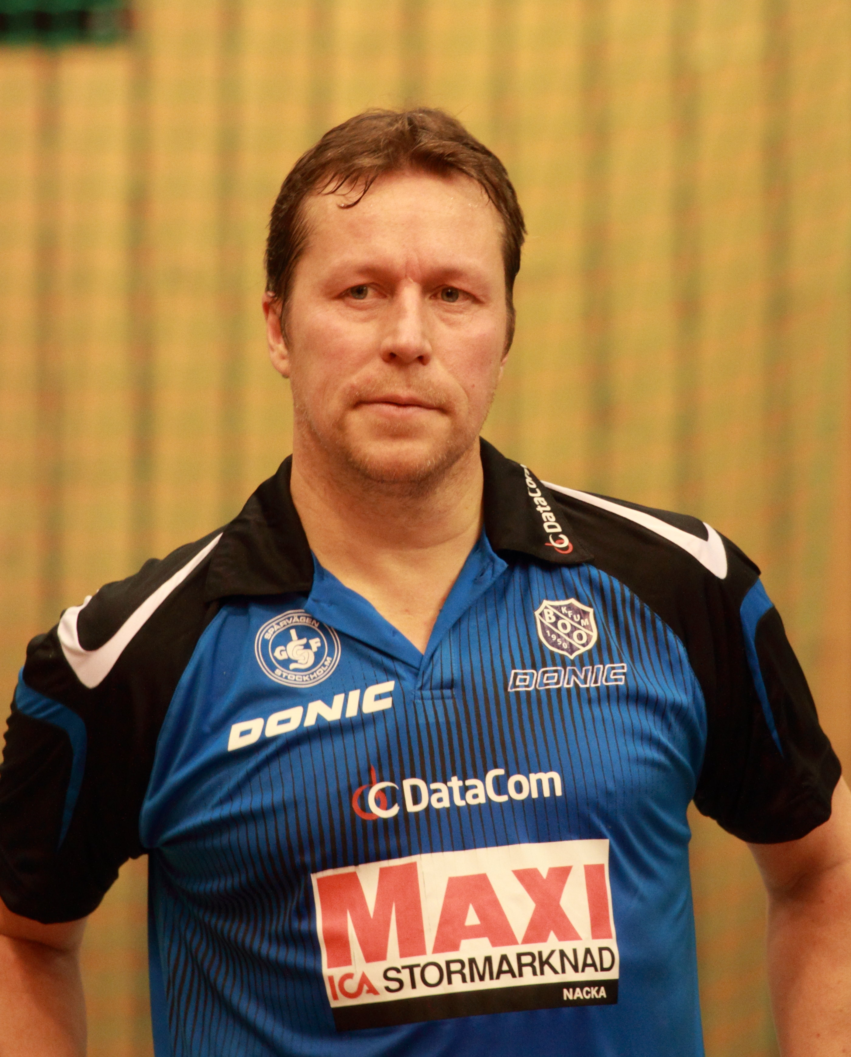 Swedish table tennis player representing Spårvägen BTK